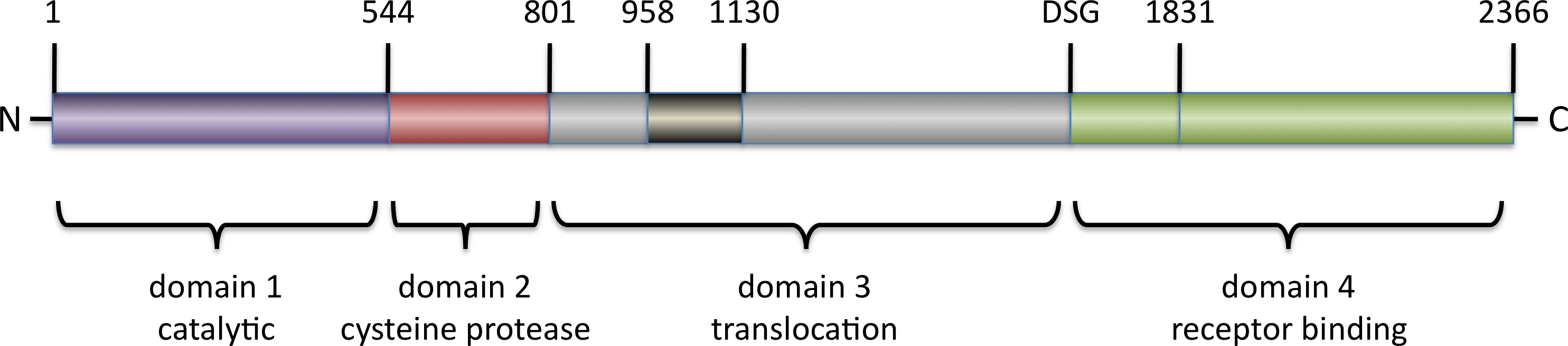 The protein domains contained in the Toxin B from Clostridium difficile, UniProt P18177